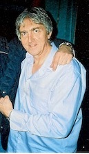 Photograph of Eric Keyes with Allan Holdsworth